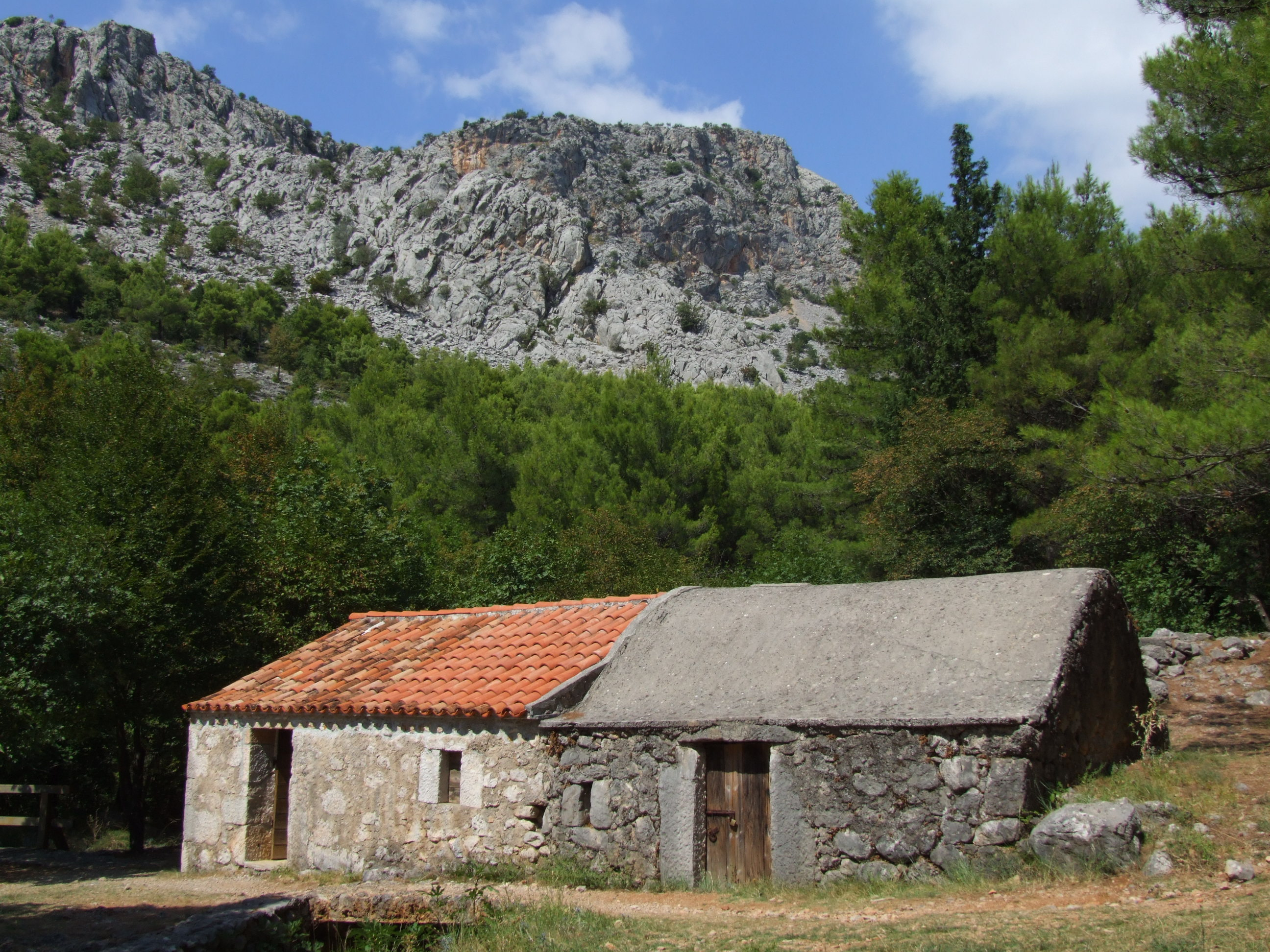 NP Paklenica - old watermills